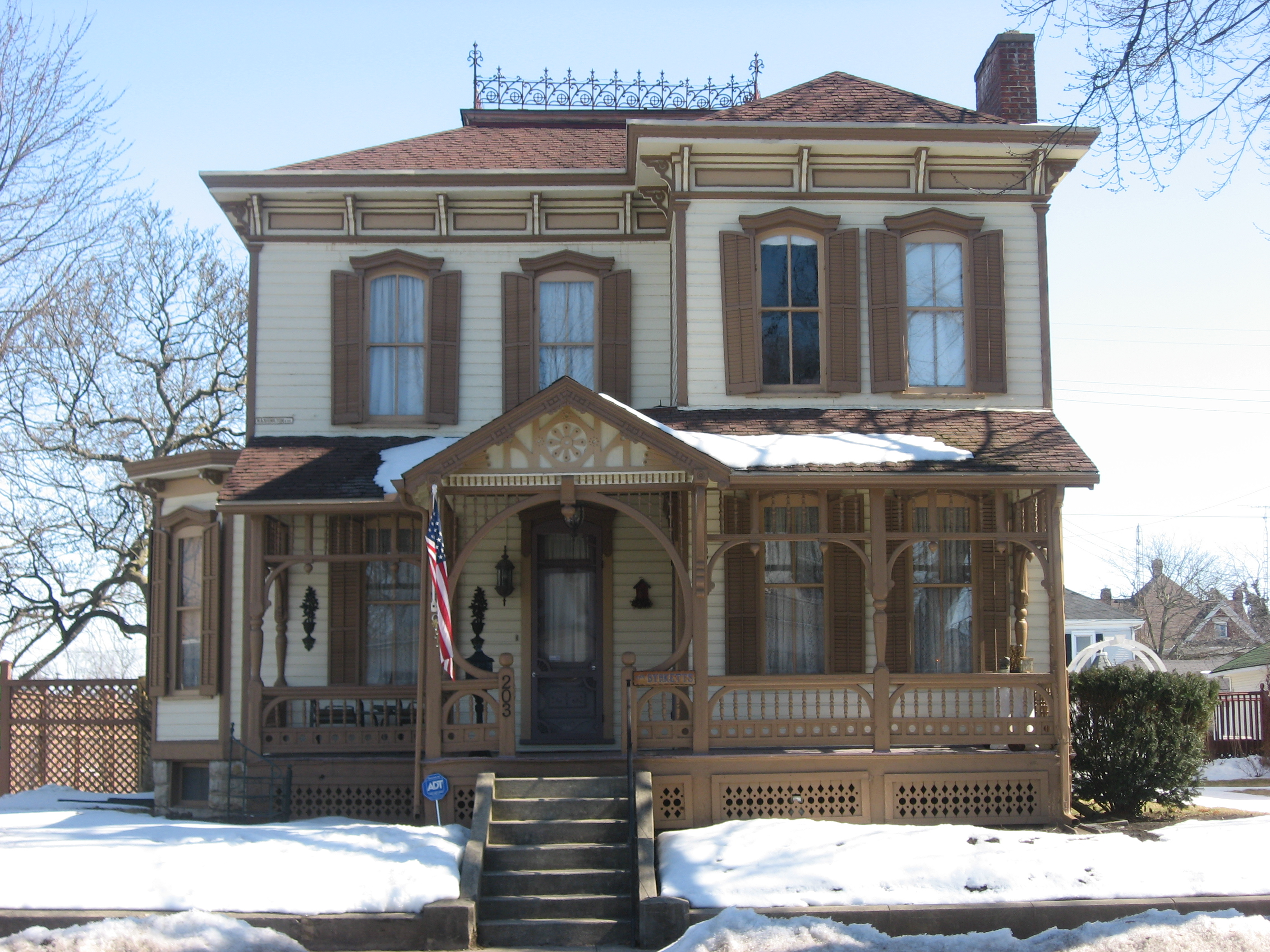 Front of the Leftwich House, located at 203 Washington Street (State Routes 49/121) in Greenville, Ohio, United States. Built in 1875, it is listed on the National Register of Historic Places.